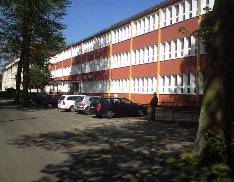 W. Pomeranian School of Business. Department of Enterprise in Gryfice (Poland)